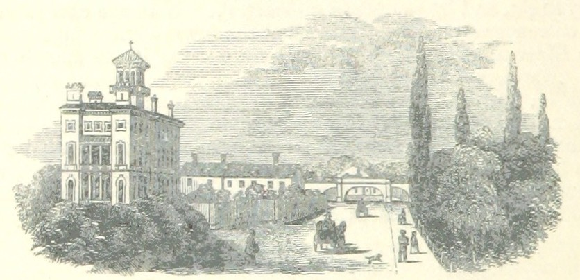 The railway line and a representation of Colchester railway station, built in 1843. The station was rebuilt in 1865, and then extensively remodelled and rebuilt in 1894. (Victoria County History). In the foreground is Essex Hall, Colchester, also built in 1843, intended to be the railway hotel. It was converted in 1850 into an asylum for the mentally handicapped, subsequently (from 1859) becoming the Eastern Counties Asylum for Idiots, Imbeciles and the Feebleminded, and then the Royal Eastern Counties Institution for Mental Defectives. Closed and demolished in 1985. (Victoria County History, National Archives, Local newspaper article). "The Colchester Station is about a mile north of the centre of the town. There is a splendid edifice in the Italian style immediately adjoining the station. It was originally intended for an hotel, but not proving a profitable undertaking, it was given up, and is now converted into an Asylum for Idiots. It is built of white brick, with stone dressings, and has a lofty tower commanding beautiful views of the surrounding country, as will be readily surmised from our little sketch annexed."